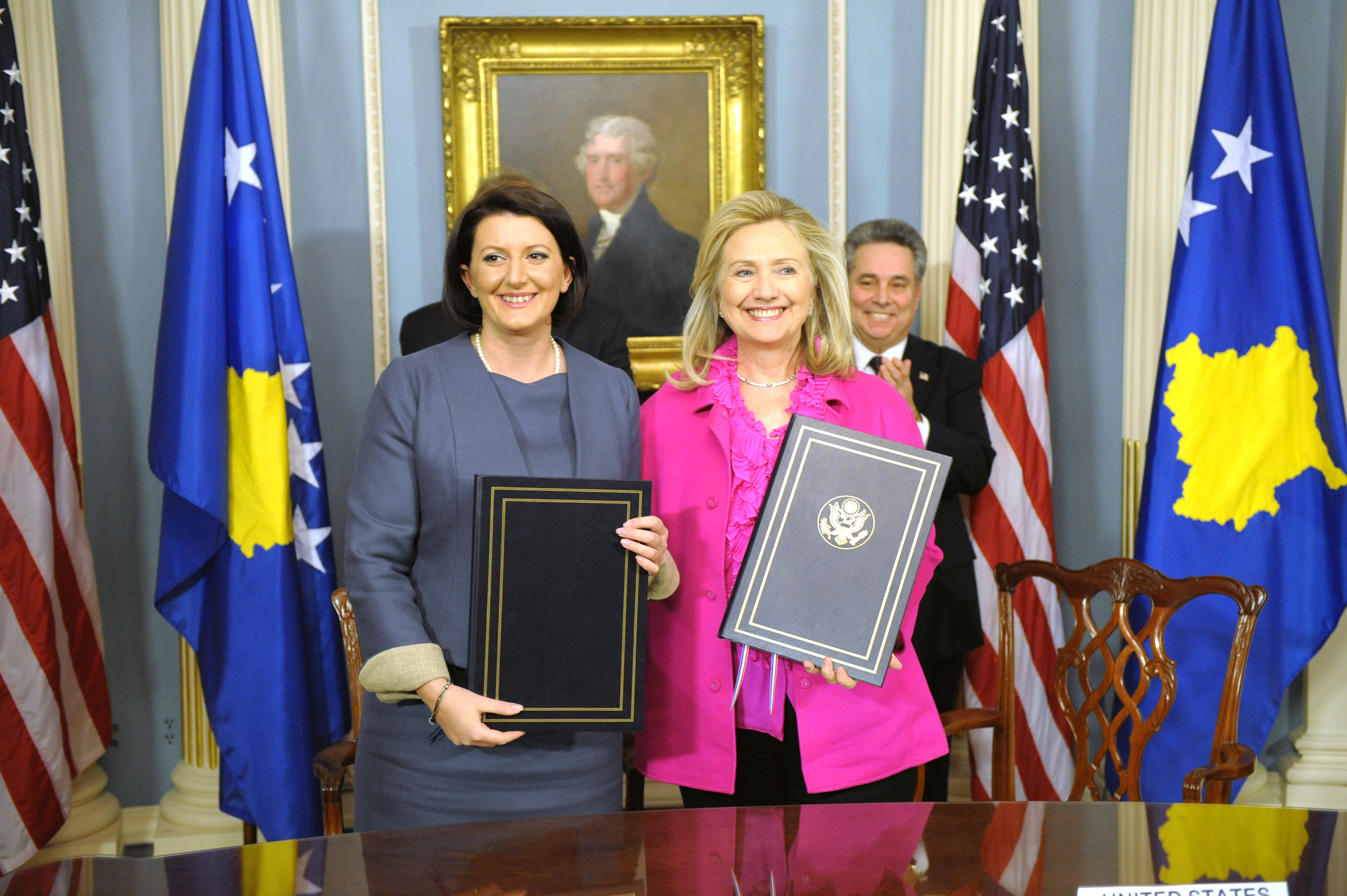 U.S. Secretary of State Hillary Rodham Clinton and President of Kosovo Atifete Jahjaga sign the U.S.-Kosovo Agreement on the Protection and Preservation of Certain Cultural Properties, at the U.S. Department of State in Washington, D.C., on December 14, 2011. [State Department photo/ Public Domain]